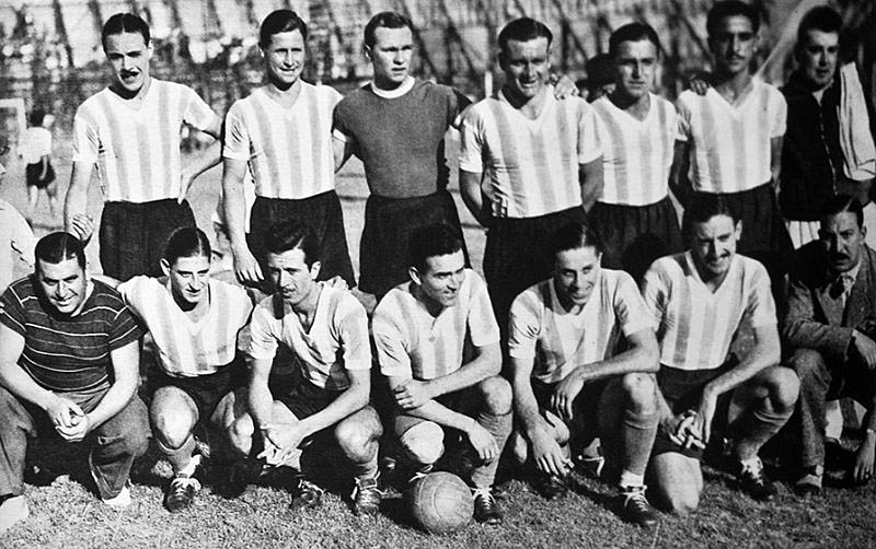 Argentino de Quilmes, Primera B champion.